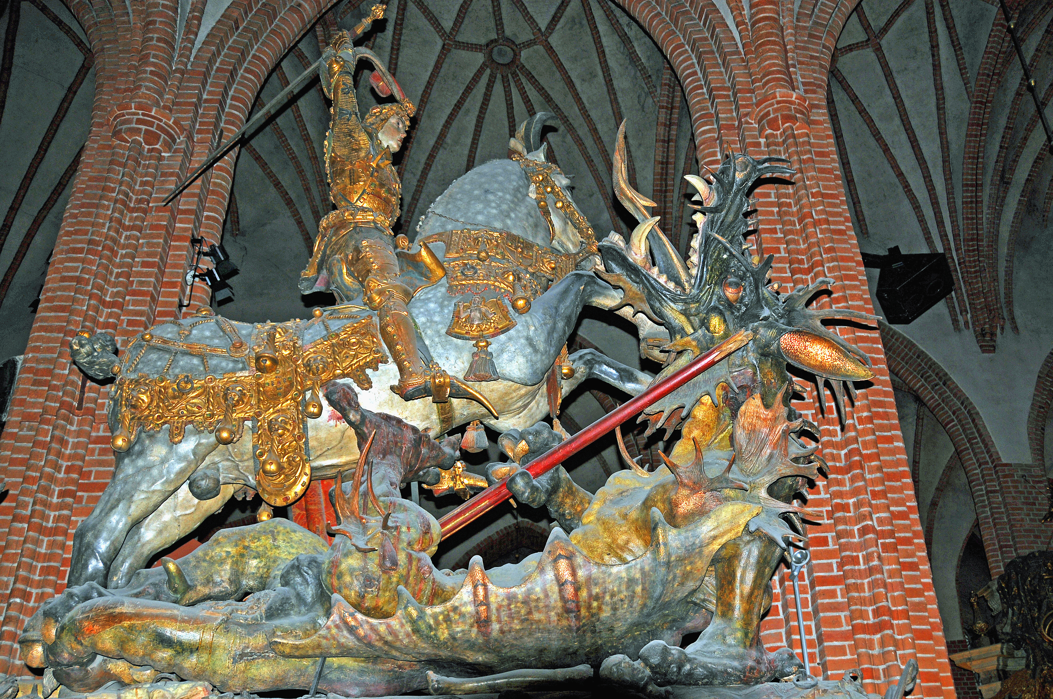 PLEASE, no multi invitations in your comments. Thanks. I AM POSTING MANY DO NOT FEEL YOU HAVE TO COMMENT ON ALL - JUST ENJOY. There was staging everywhere in this church as a royal wedding is going to happen here and it was being repaired. So this was the only picture I got, didn't expect to get inside. Storkyrkan was first mentioned in 1279, and became a Lutheran Protestant church in 1527. It has also been the cathedral of Stockholm since 1942. The last Swedish king to be crowned here was Oscar II in 1873. The most famous of its treasures is the dramatic wooden statue of Saint George (1489). The statue, commissioned to commemorate the Battle of Brunkeberg (1471), also serves as a reliquary, containing relics supposedly of Saint George and two other saints.